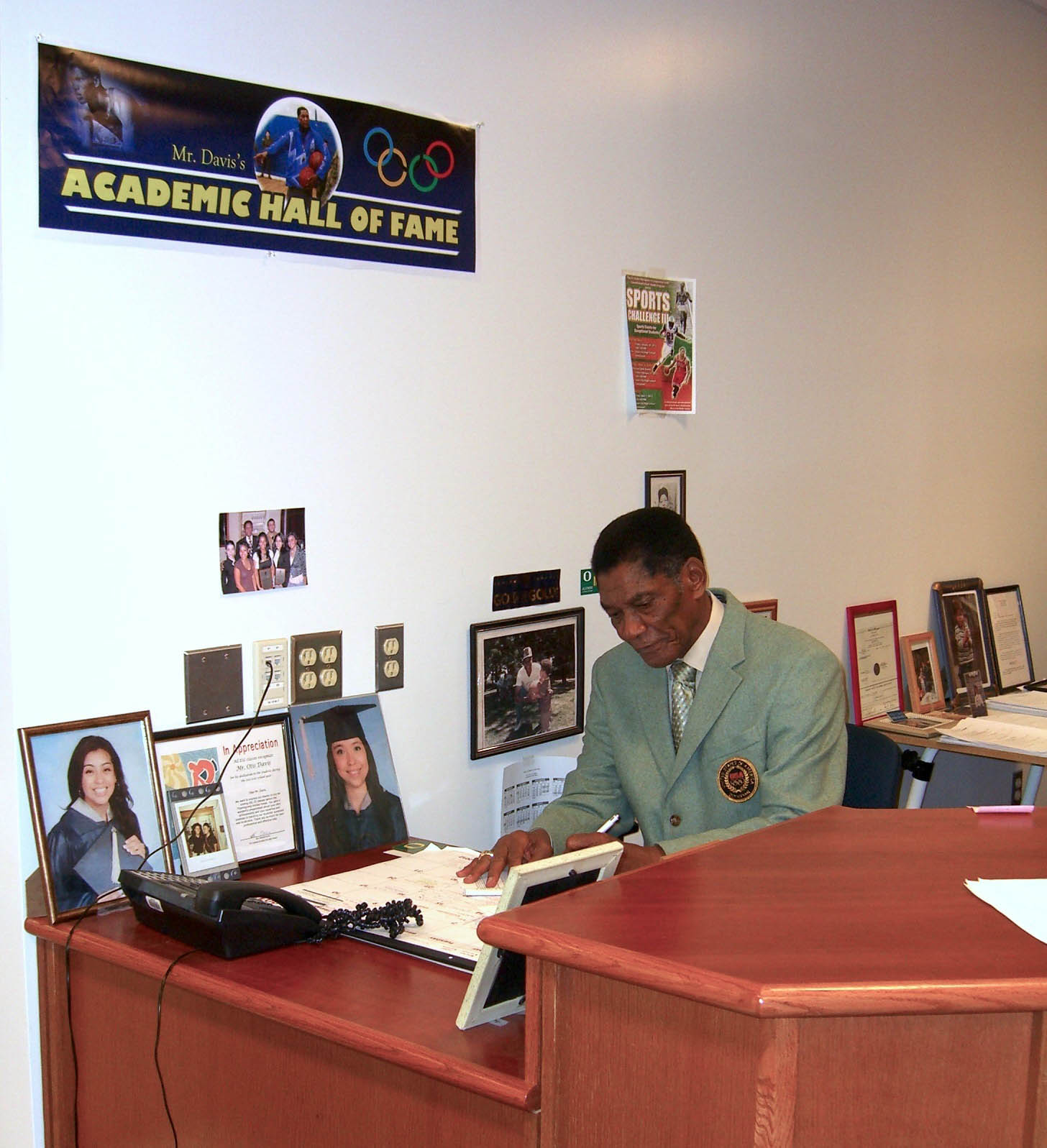 Two-time Olympic gold medal winner Otis Davis at his desk at Union City High School in Union City, New Jersey, where he works as a verification officer, coach and mentor. This photo was created by Luigi Novi. It is not in the public domain, and use of this file outside of the licensing terms is a copyright violation.